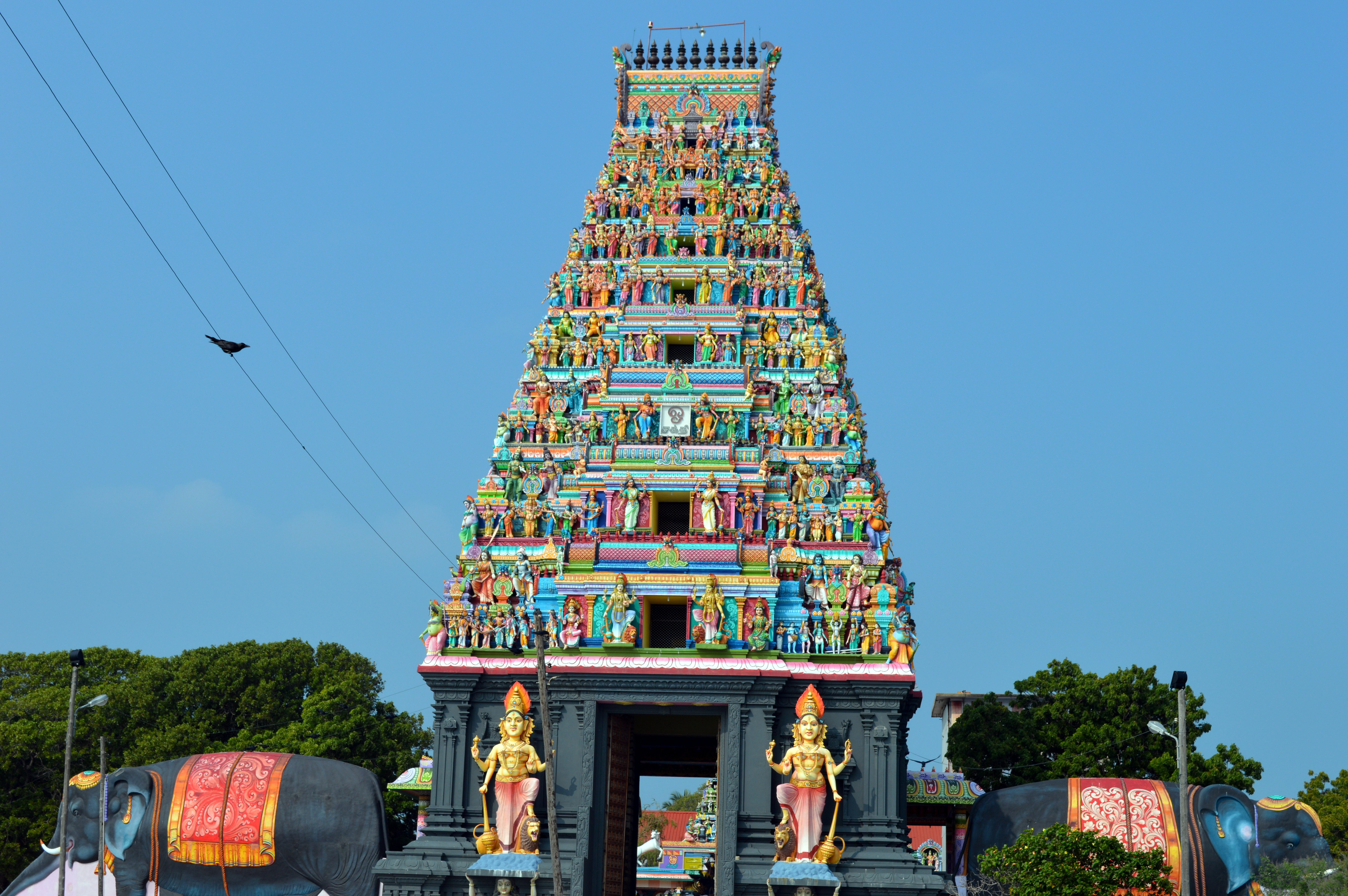 Naina theevu naga poosani kovil kovil kopuram